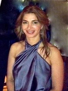 Mira Sasson is an Israeli artist and painter of artist portraits for Pioneers For A Cure - Songs To Fight Cancer